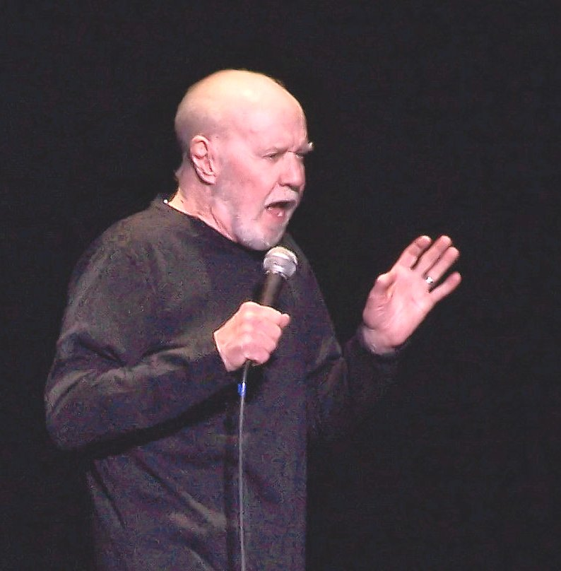 Went to see GC in Trenton on 4/4/08. His opening act was Dennis Blair. Between the 2 of them I had no mascara left